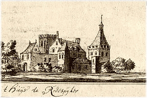 House 'Roode Spyker' at Suderwick, Germany (possibly a fantasy image of the former castle Roode Spijker by Jacobus Stellingwerff)